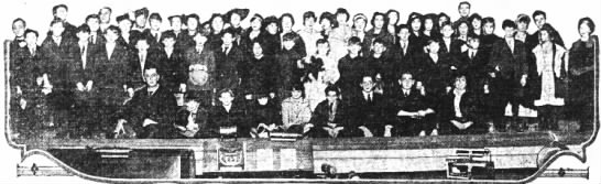 Photo of Eddie Foy and the Seven Little Foys at an industry party in Oregon, 1915. The Foys are seated in the front row, from leftː Eddie Foy Sr., Irving, Eddie Jr., Madeline, Mary, Richard, Charley, Bryan